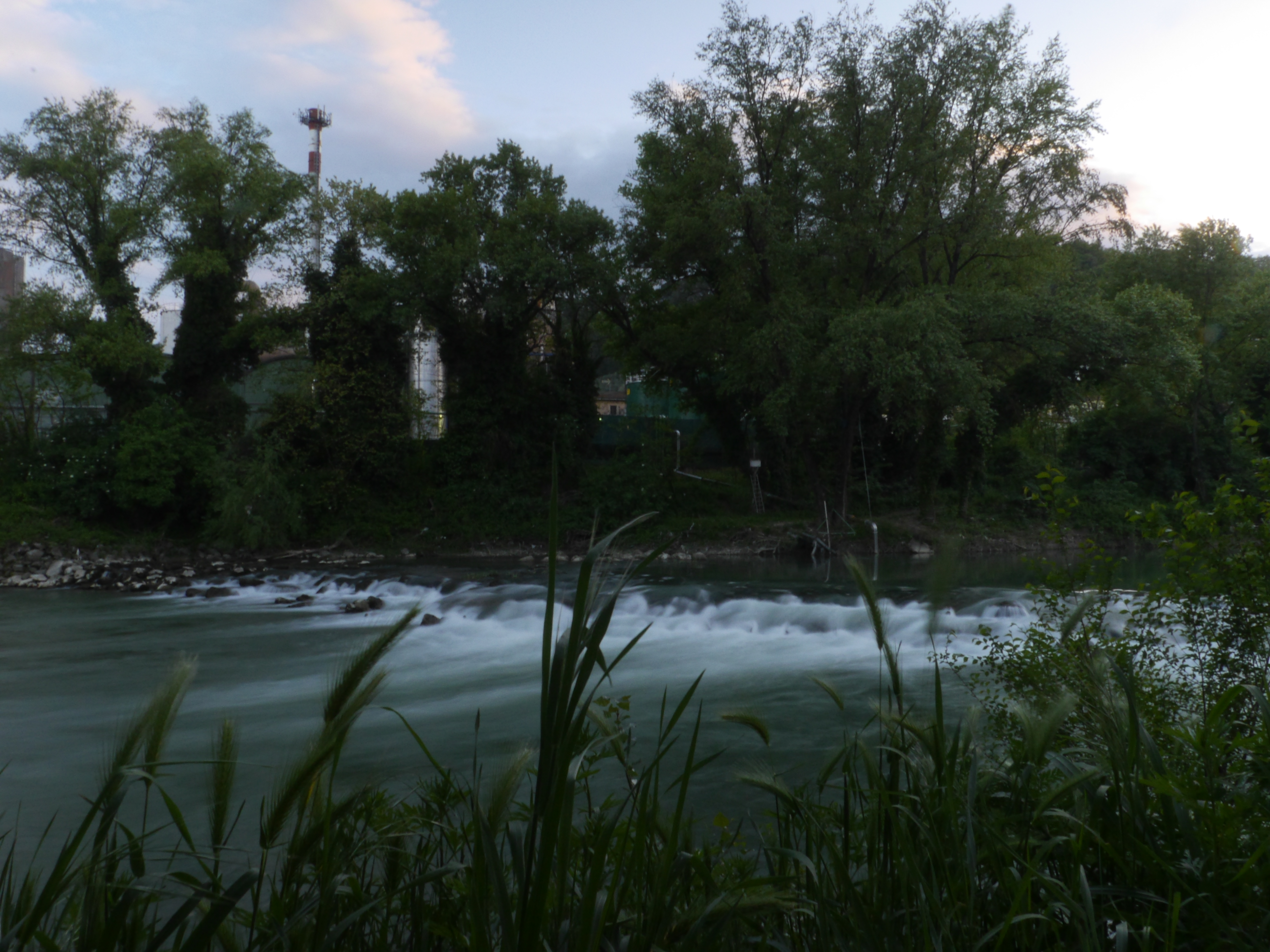 This photo was taken with Panasonic Lumix DMC-GH3 camera, thanks to Panasonic Italia. You can see all photographs in category: Taken with Panasonic Lumix DMC-GH3.